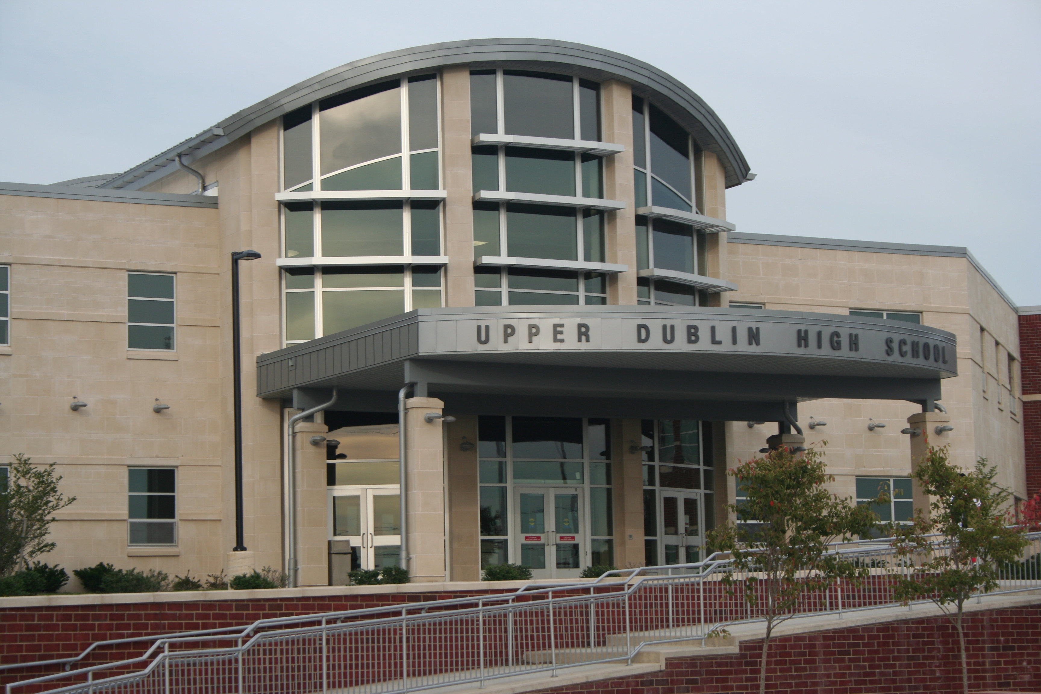 This is a photograph of the front of Upper Dublin HIgh School.